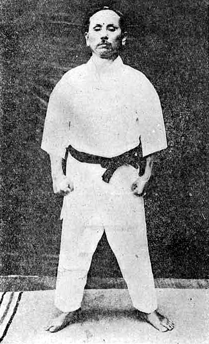 Gichin Funakoshi in Yoi position of kata Heian Nidan